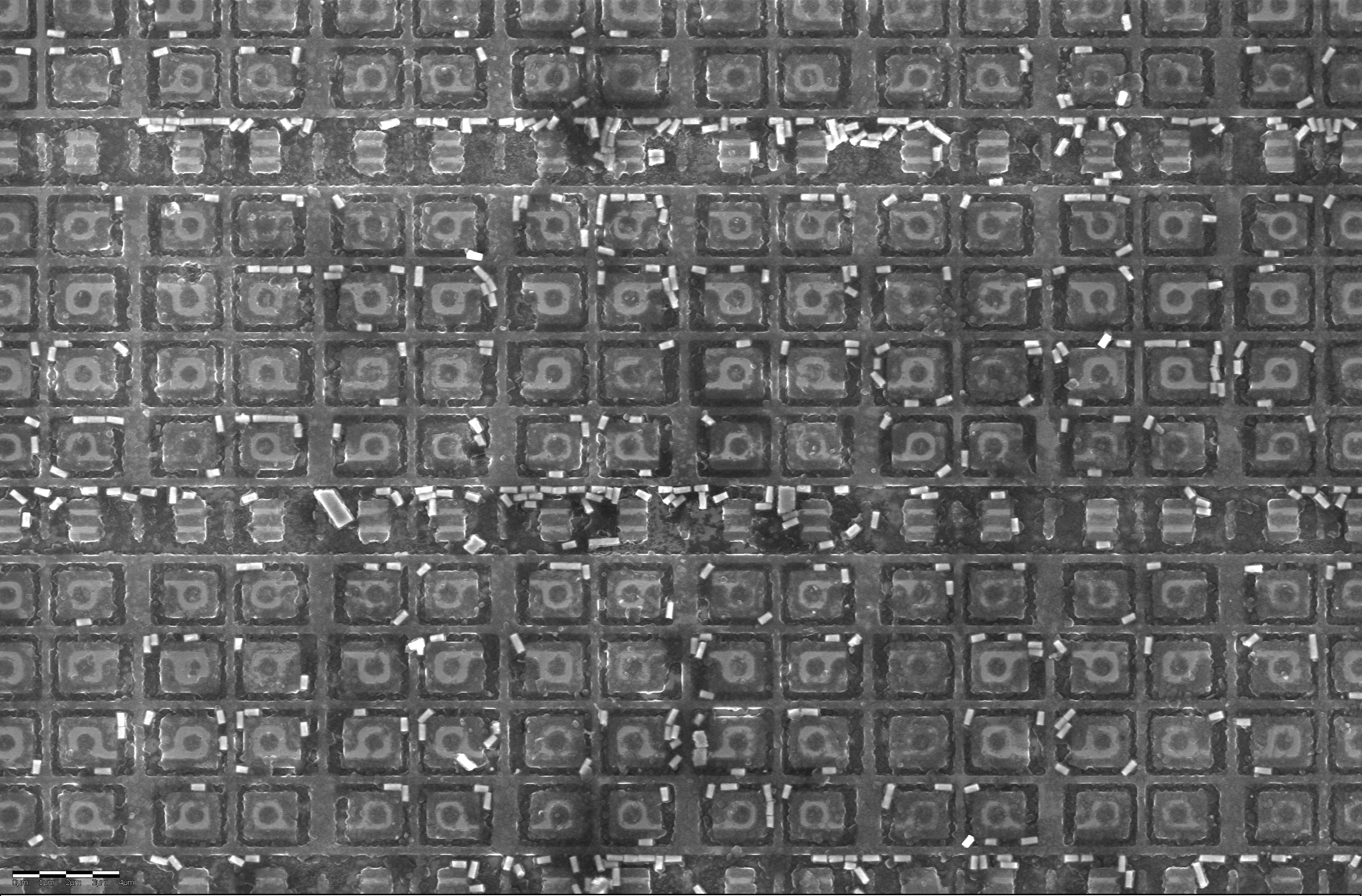 Integrated circuit die image of a 1886VE10 radiation hardened 50MHz microcontroller designed by Milandr and manufactured by Sitronics-Mikron on 180nm bulk-silicon technology. MLDR62. View from a scanning electron microscope post metalization etching.